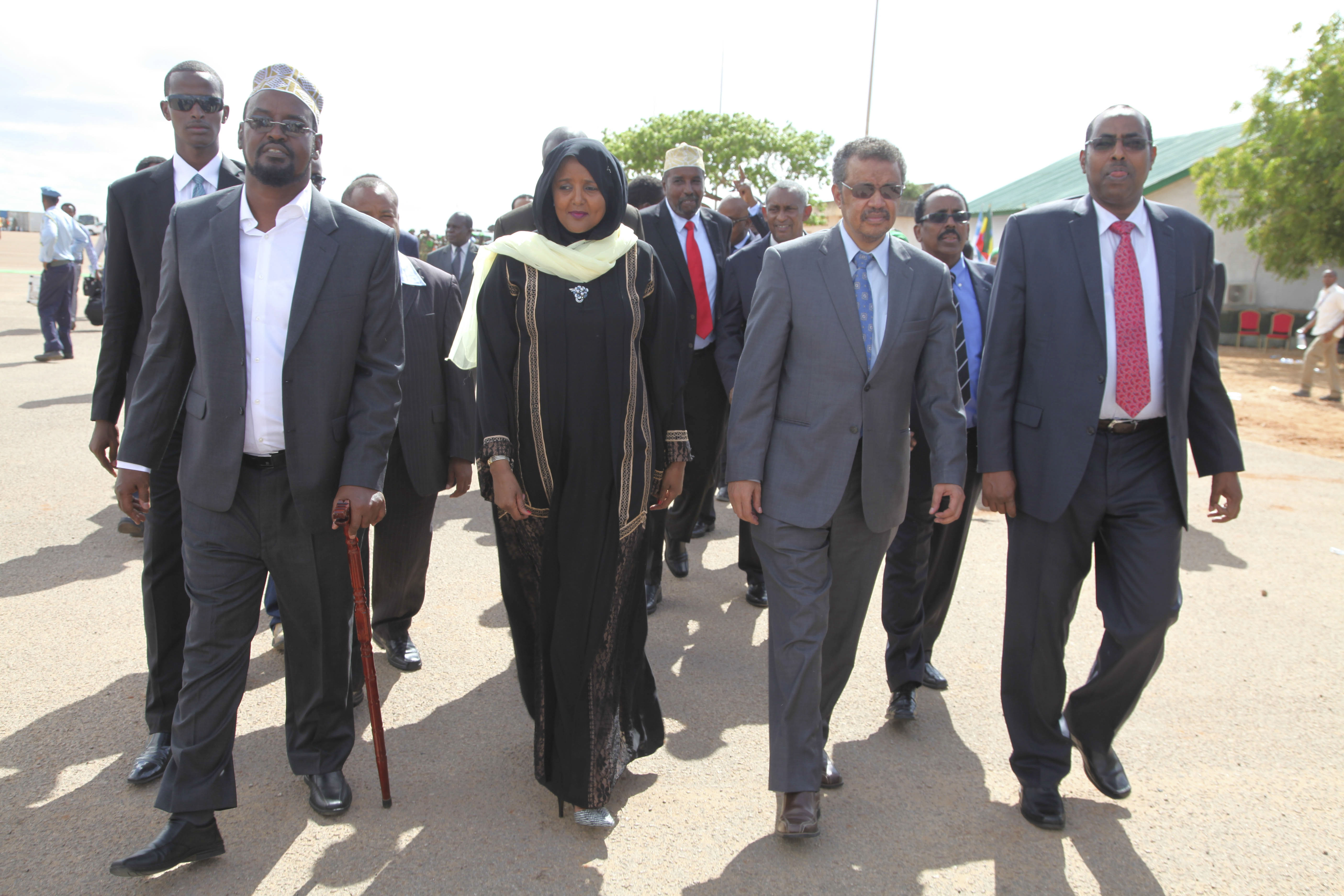 From left to right: Jubbaland president Ahmed Madobe, Kenya Foreigner Minister Amina Muhamed, Ethiopia foreign minister Dr. Tedros Adhanom Ghebreyesus, and Mohamed Abdi Afey, representative of IGAD to Somalia walk at Kismayu International Airport, Somalia. They were in Kismayu to attend the inauguration ceremony of Jubbaland Parliament on May 7th, 2015. AMISOM Photo/ Mohamed Barut